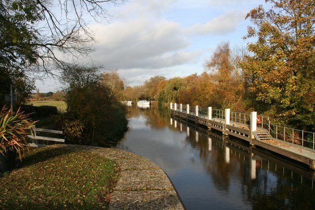 Last bit of the cut Looking out of the Lock on the Clifton Cut at the last section before it rejoins the Thames